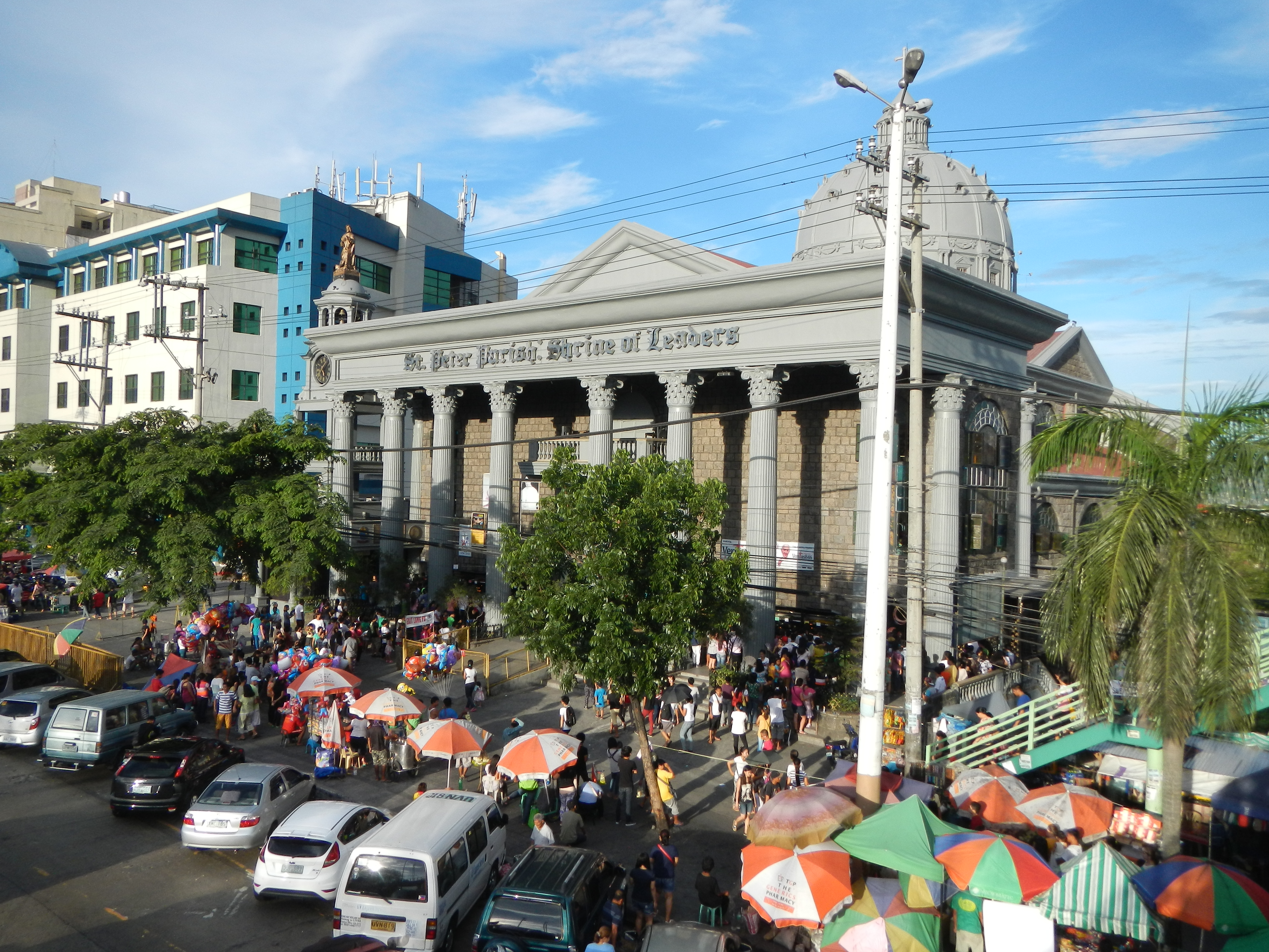 Saint Peter Parish: Shrine of Leaders - (Established on June 20, 1993, June 29, 2012, Decree 12-072 conferred Title of Diocesan Shrine of Leaders; February 21, 2012 Proudly Catholic Movement along Block 44, Lot7 & 8 NCE 1 [1] Batasan Hills, Quezon City, Metro Manila , formerly known as Constitution Hill, Commonwealth Avenue, Quezon City formerly known as Don Mariano Marcos Avenue as part of Radial Road 7 (R-7) - Batasan Road).